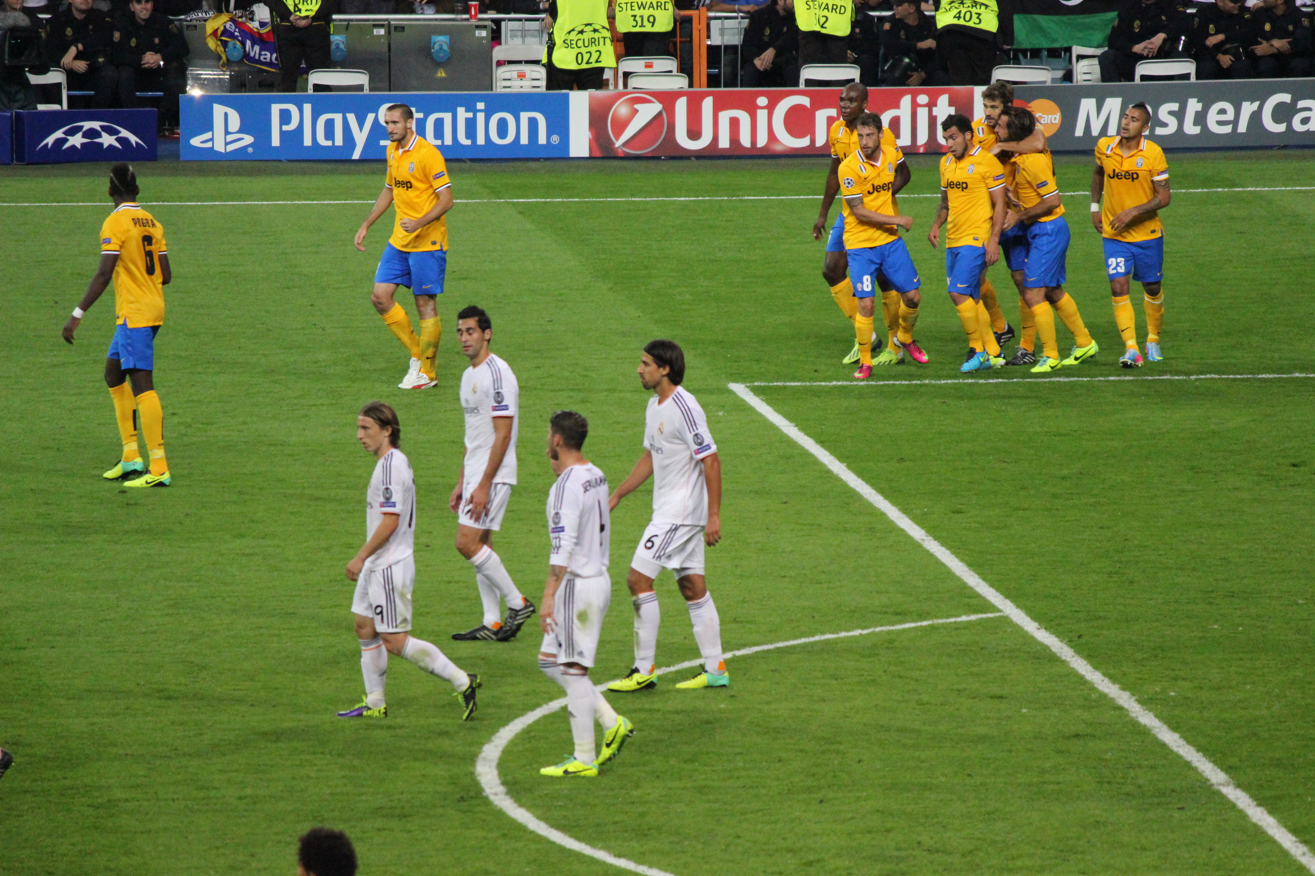 Real Madrid vs Juventus, 24 October 2013 Champions League